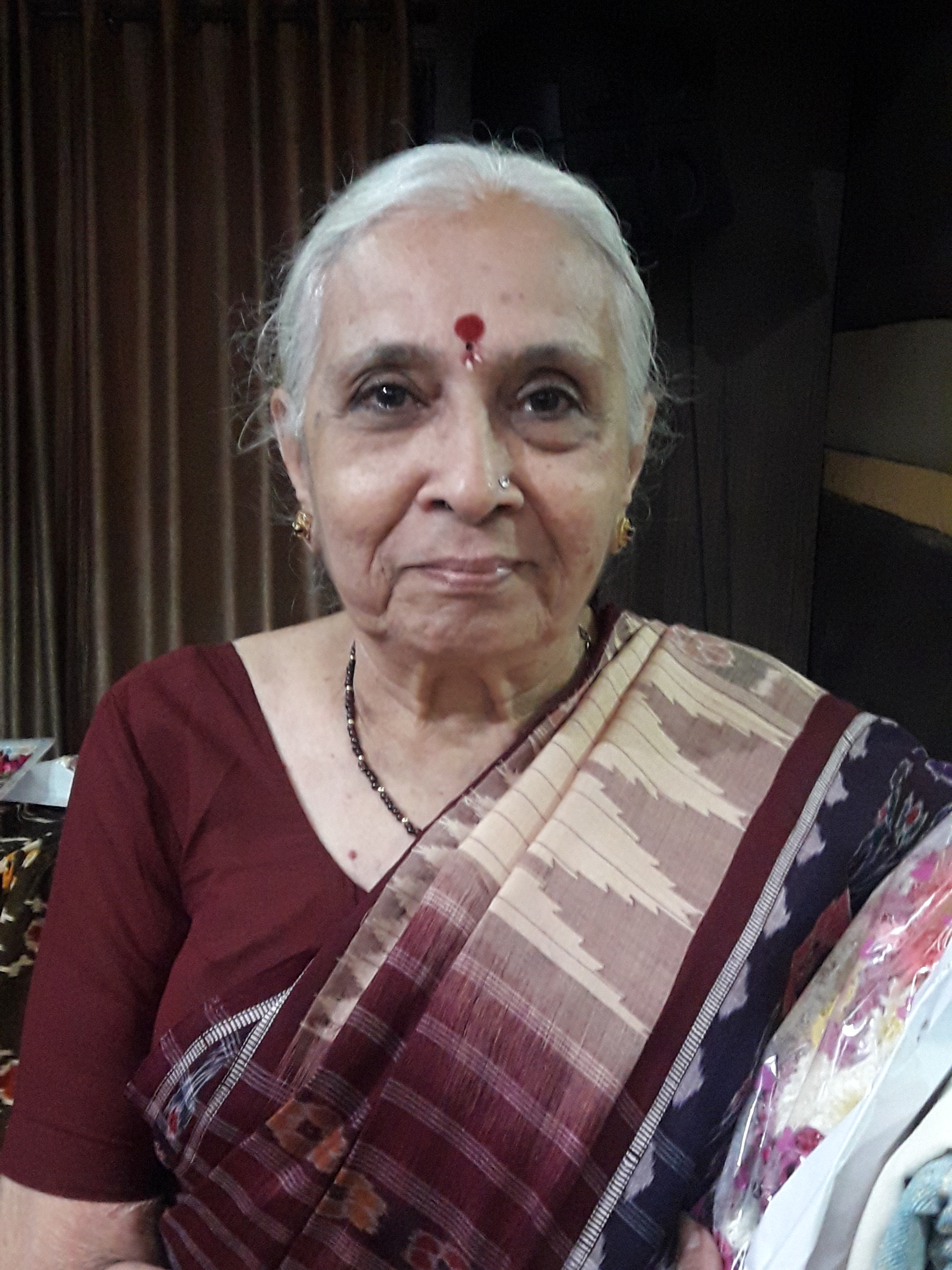 Gujarati linguist and writer Urmi Ghanashyam Desai at K. K Shastri Educational Campus, located at Government Arts College near Khokhara Circle, Maninagar, Ahmedabad, Gujarat, India.